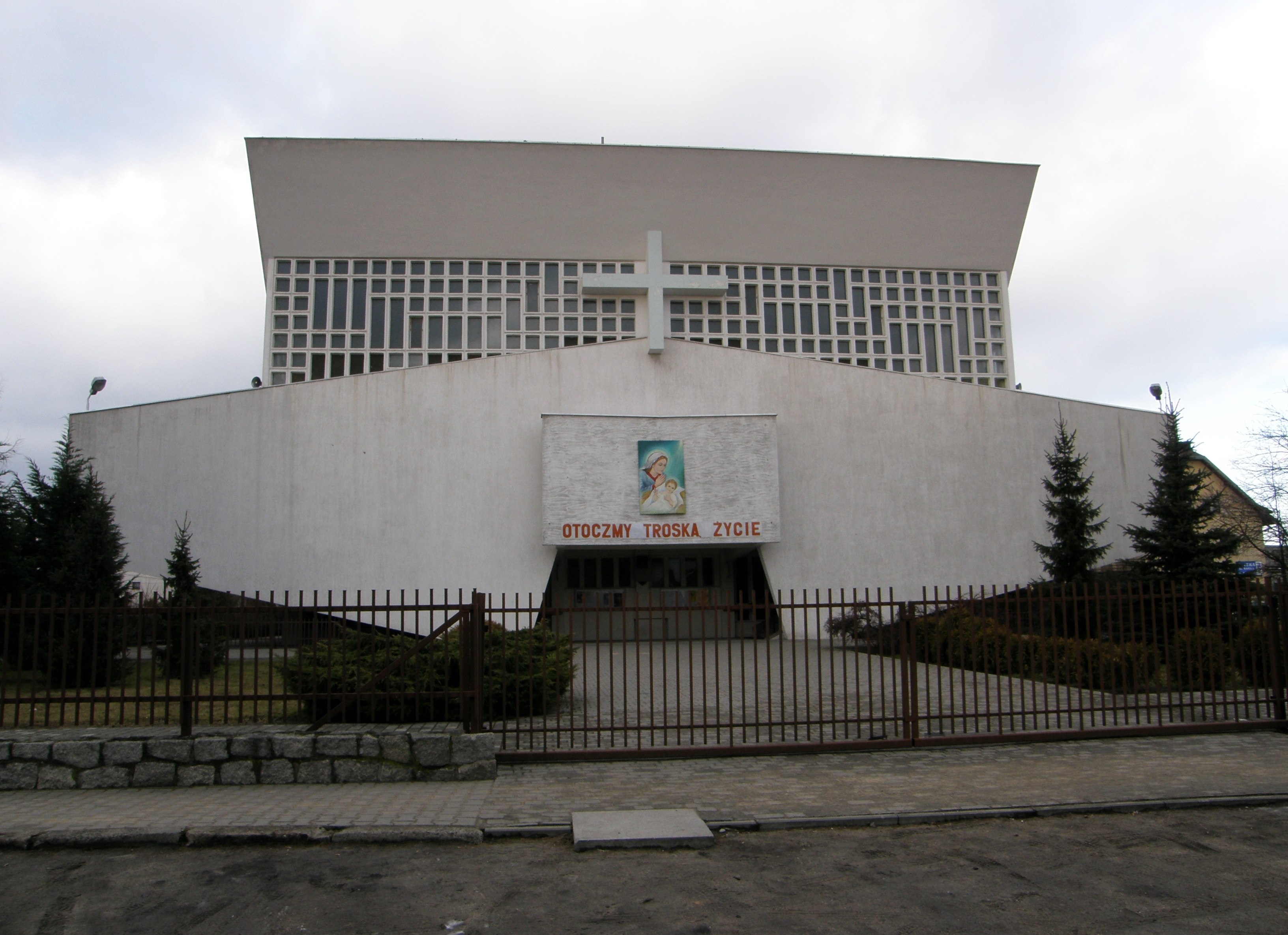 Church of Christ the Redeemer (kościół Chrystusa Odkupiciela) in Poznan, Poland